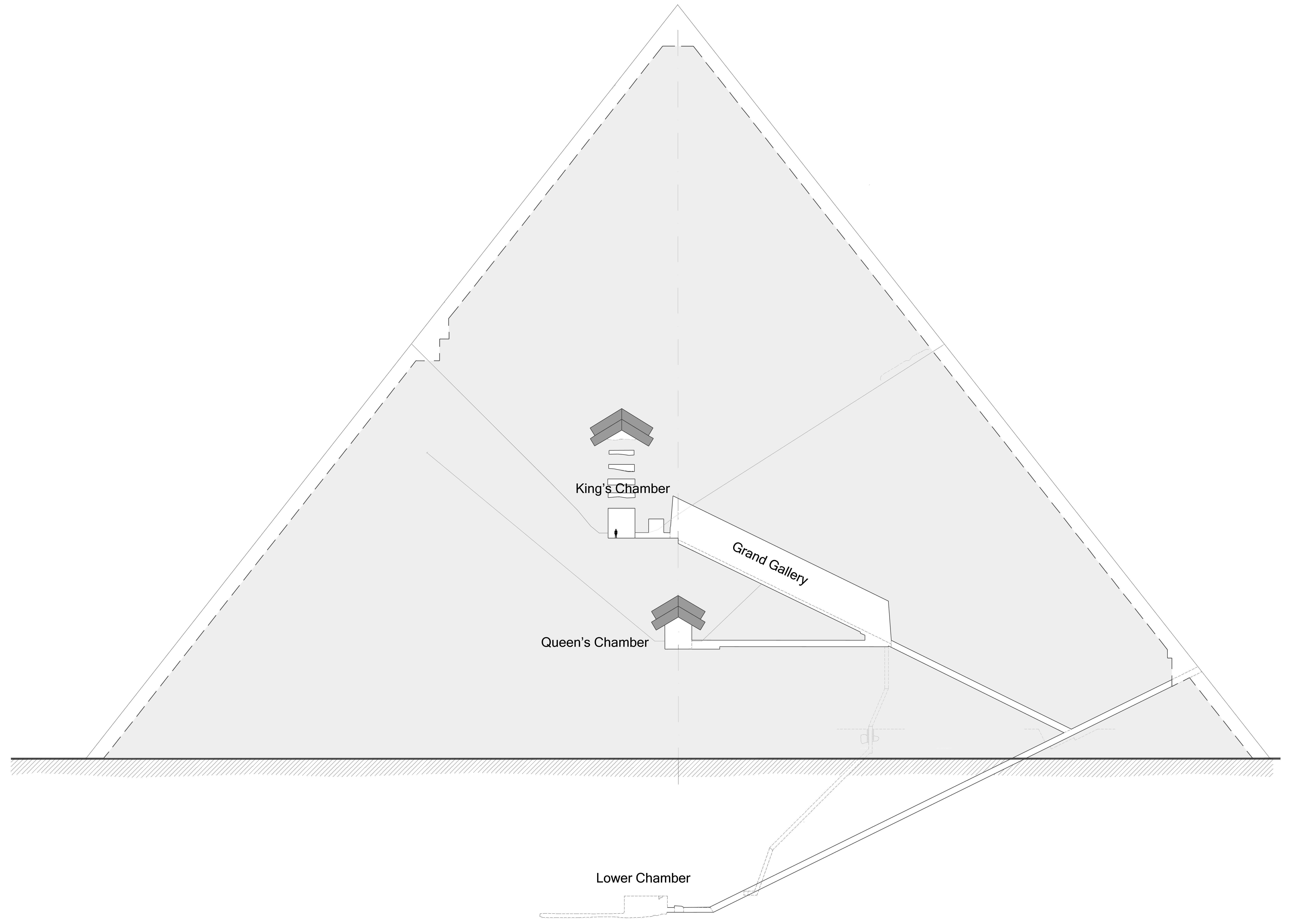 Self made with Photoshop 9-22-07. Drawing of the internal structures of the great pyramid at Giza.